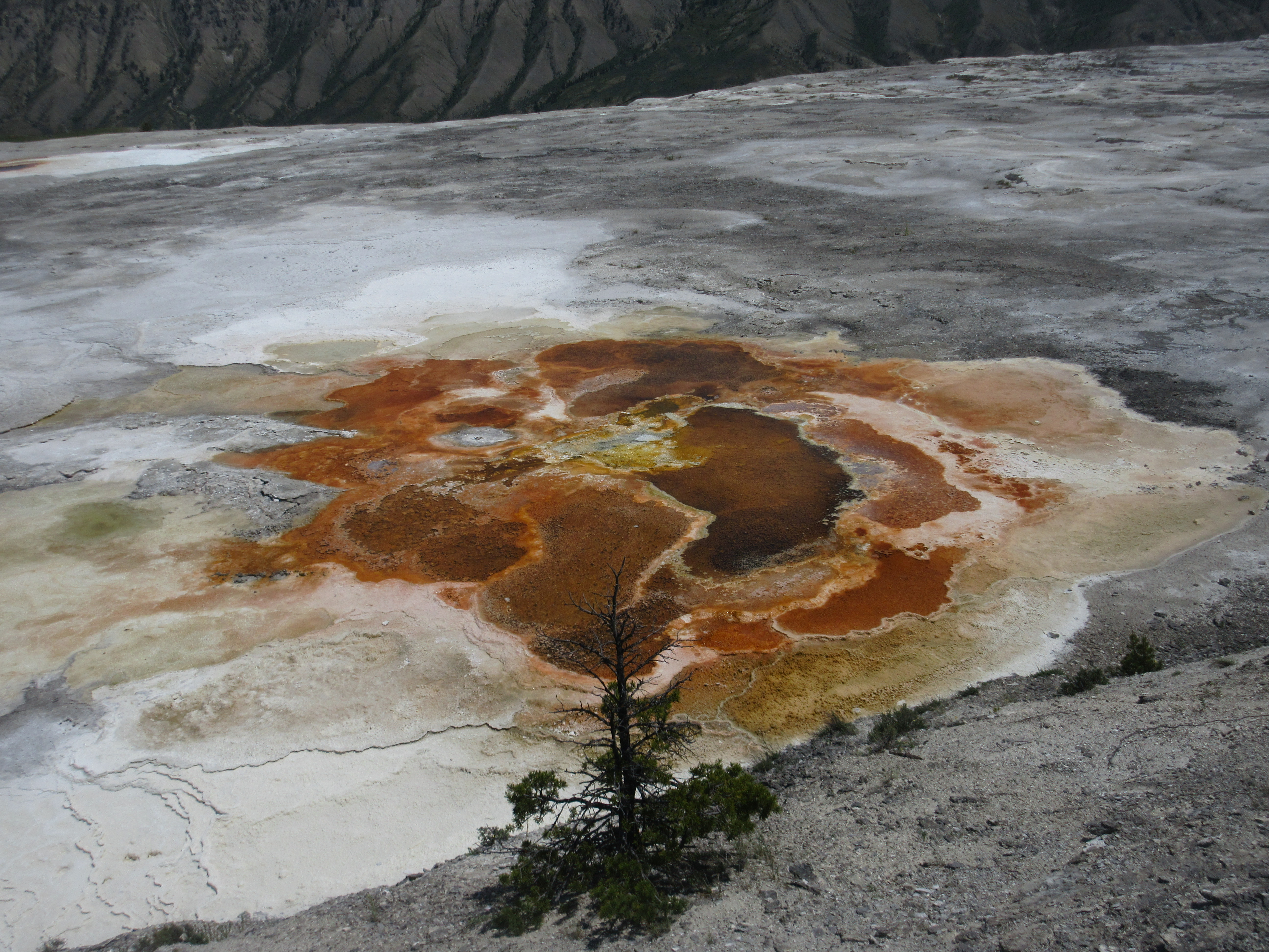 Dyrad Spring